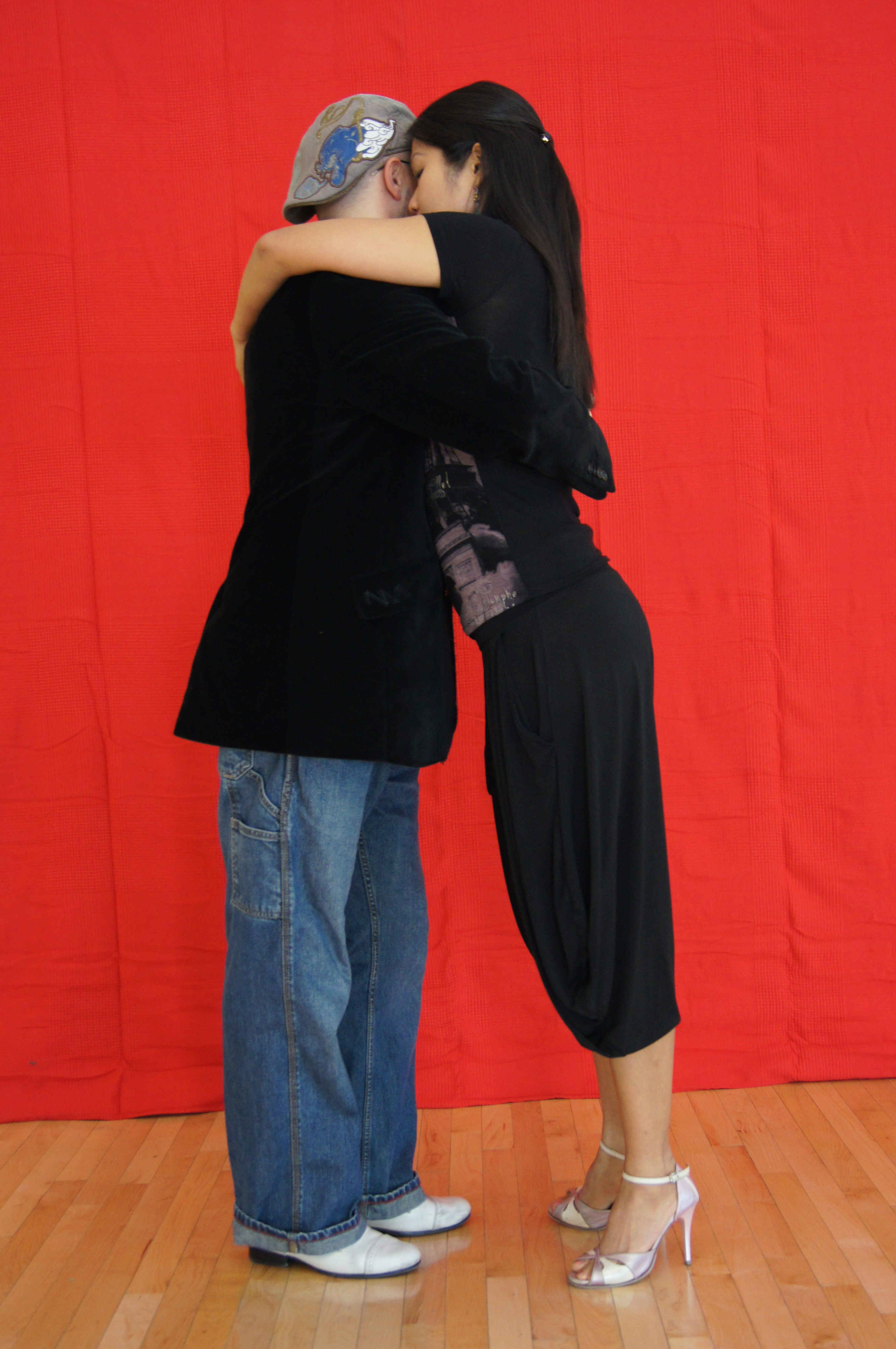 Millonguero embrace. Argentine tango. Homer and Cristina Ladas. Stanford, CA.